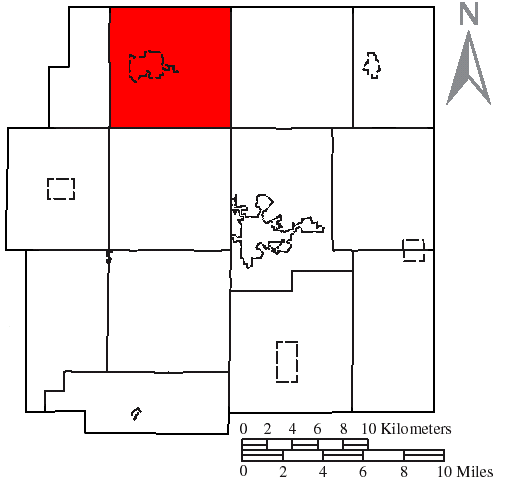 Made by the US Census and modified by myself